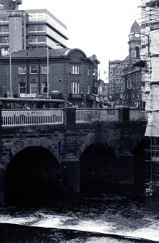 Lady's Bridge in Sheffield, England, photographed in 2001.